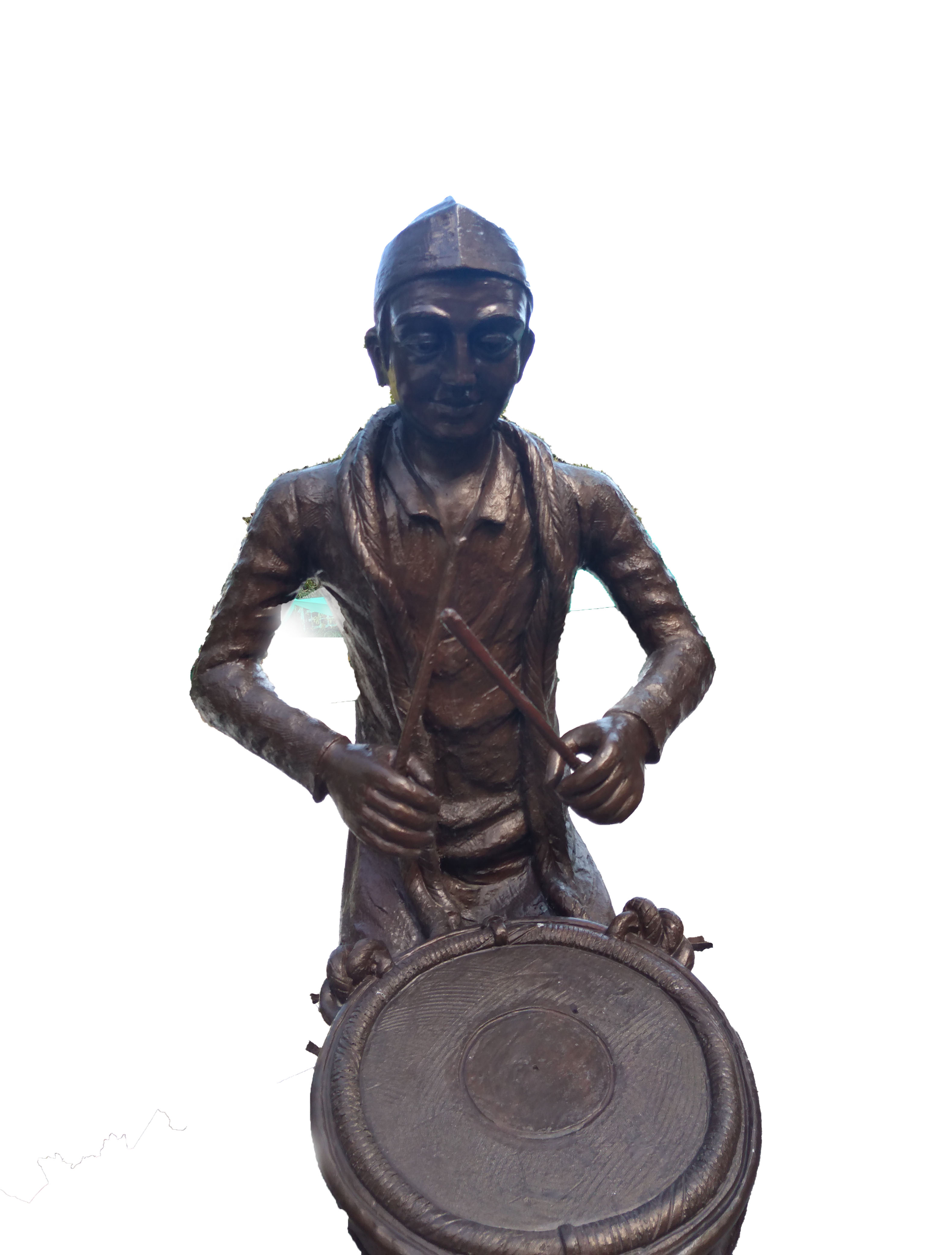 Traditional Catguts of Uttarakhand the Dhol-Domous, Which are used in special occasions like festivals.